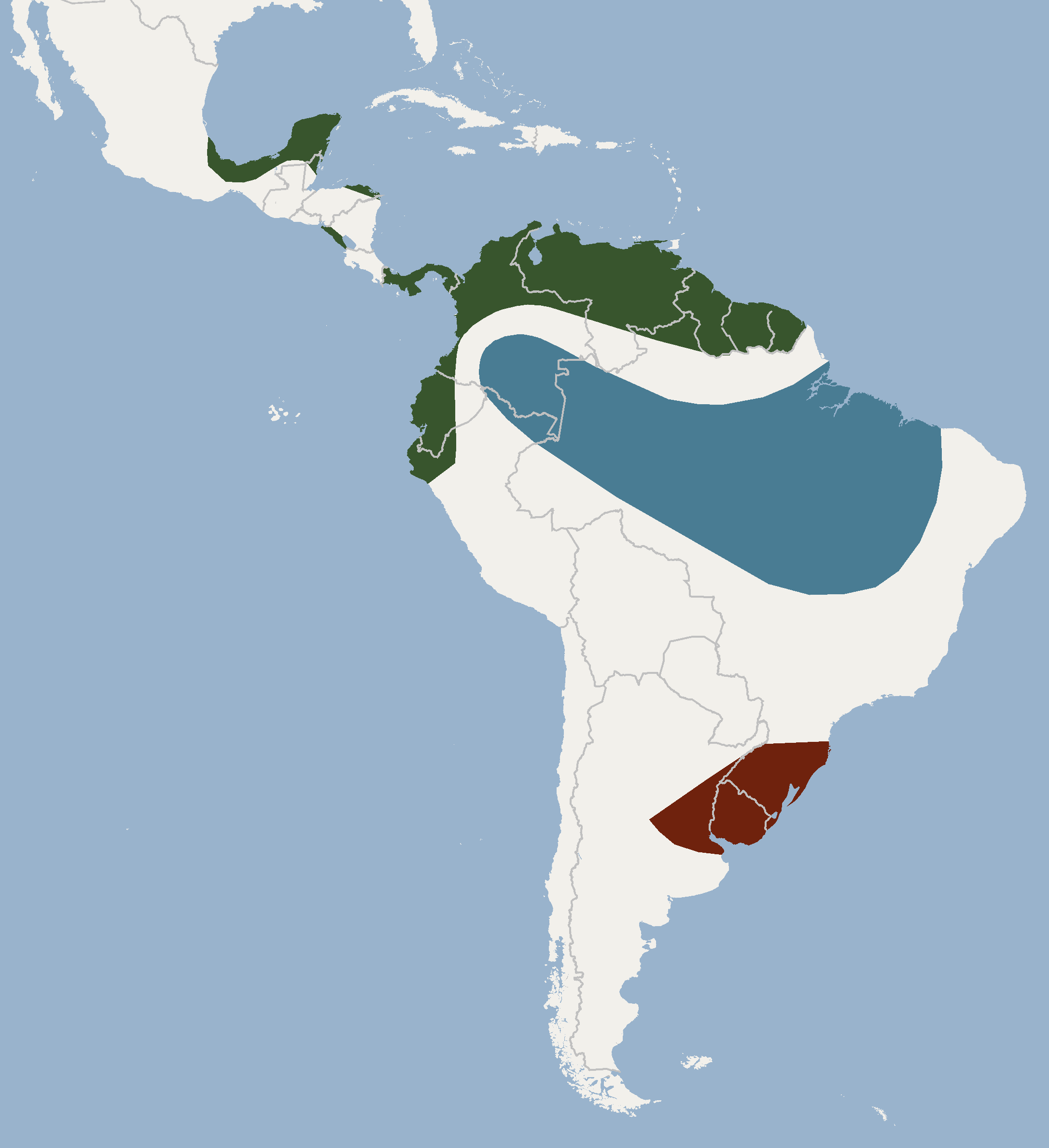 According to Eger JL, 1977